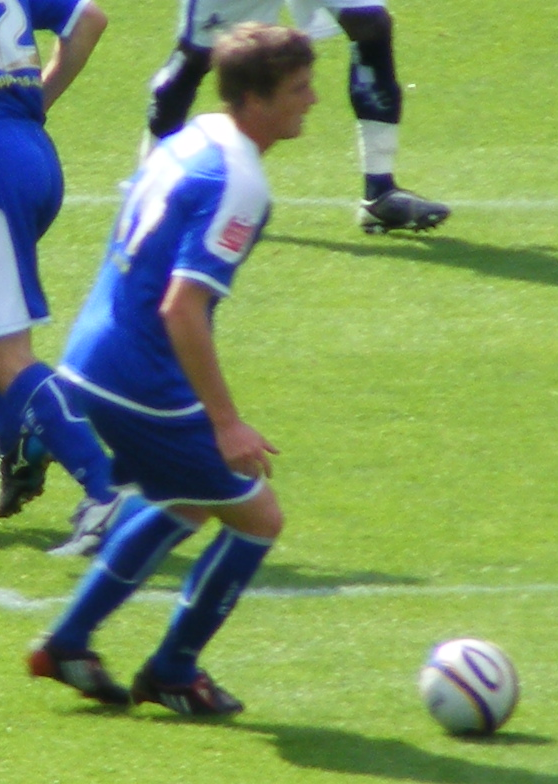 Andy King. Image cropped from original at Flickr.